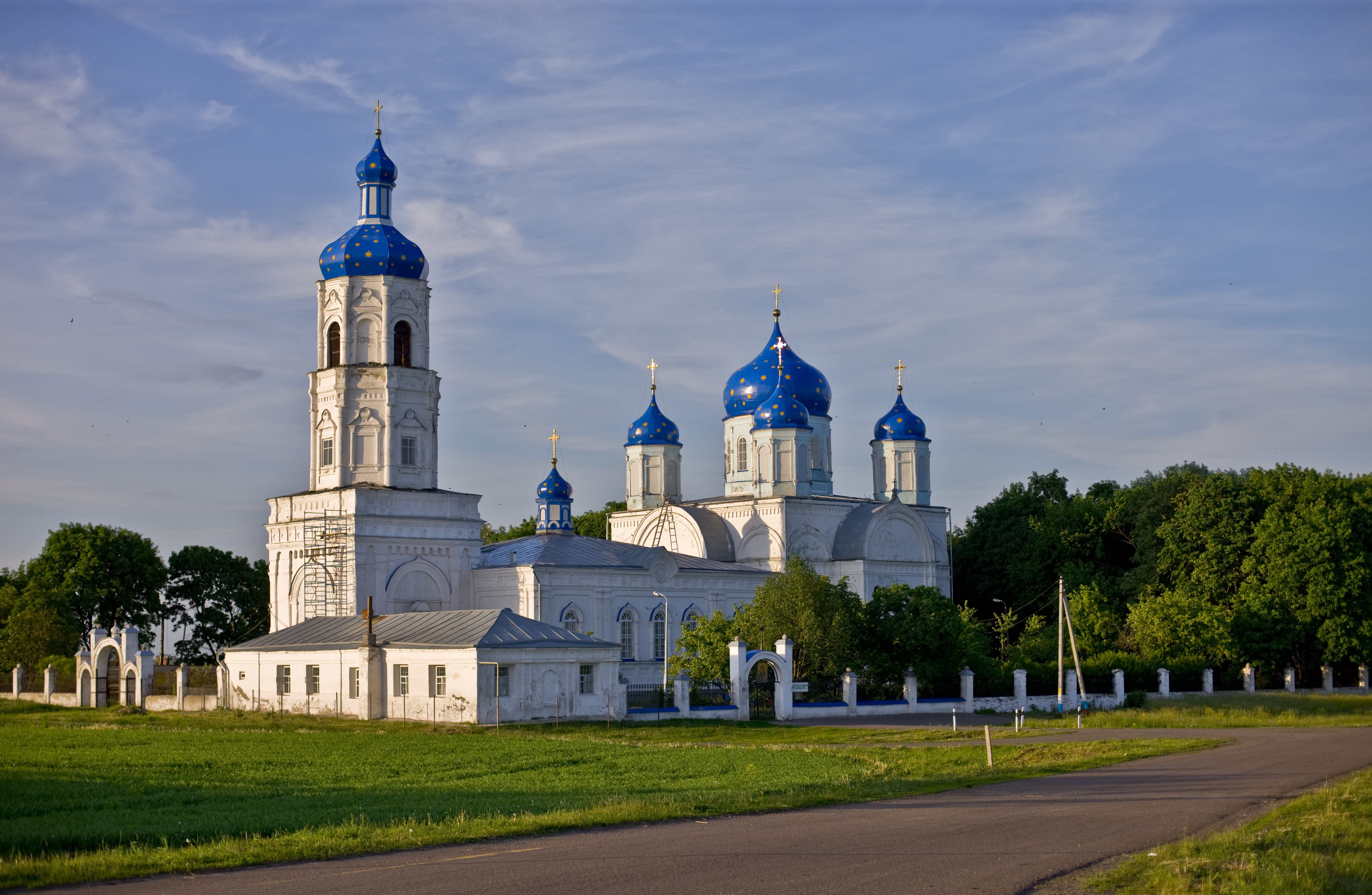 Church in Zimarovo, Russia